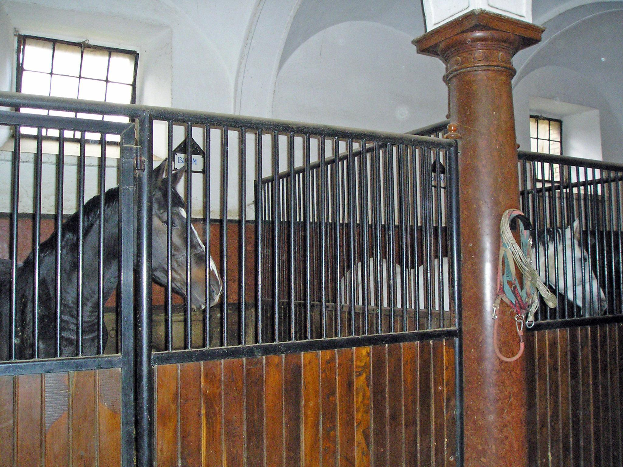 Horses in stable in Hungary. The horses: Gidran stud